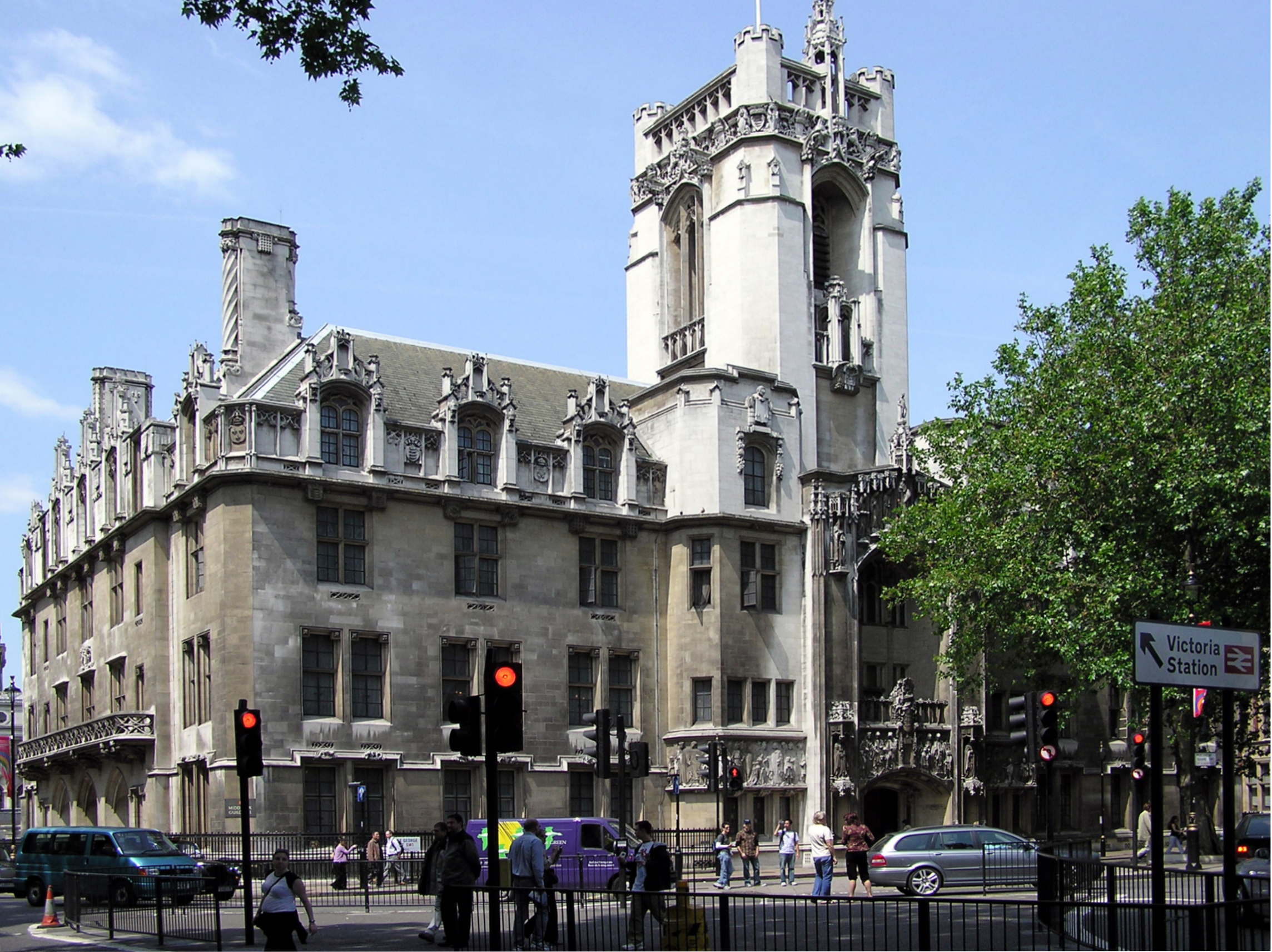 The Middlesex Guildhall in Little George Street, Westminster, London. Taken by Adrian Pingstone in June 2004 and released to the public domain.